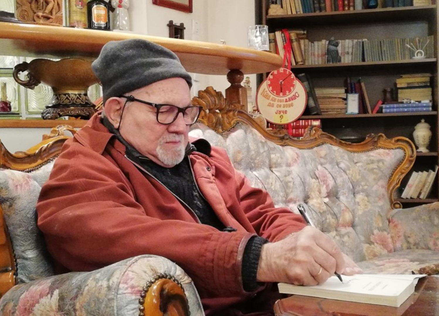 Milovan Danojlić in the Museum of Serbian Literature, part of the Society for Culture, Art and International Cooperation Adligat in Belgrade, Serbia. Српски (ћирилица): Милован Данојлић потписује књиге у посети Удружењу Адлигат.